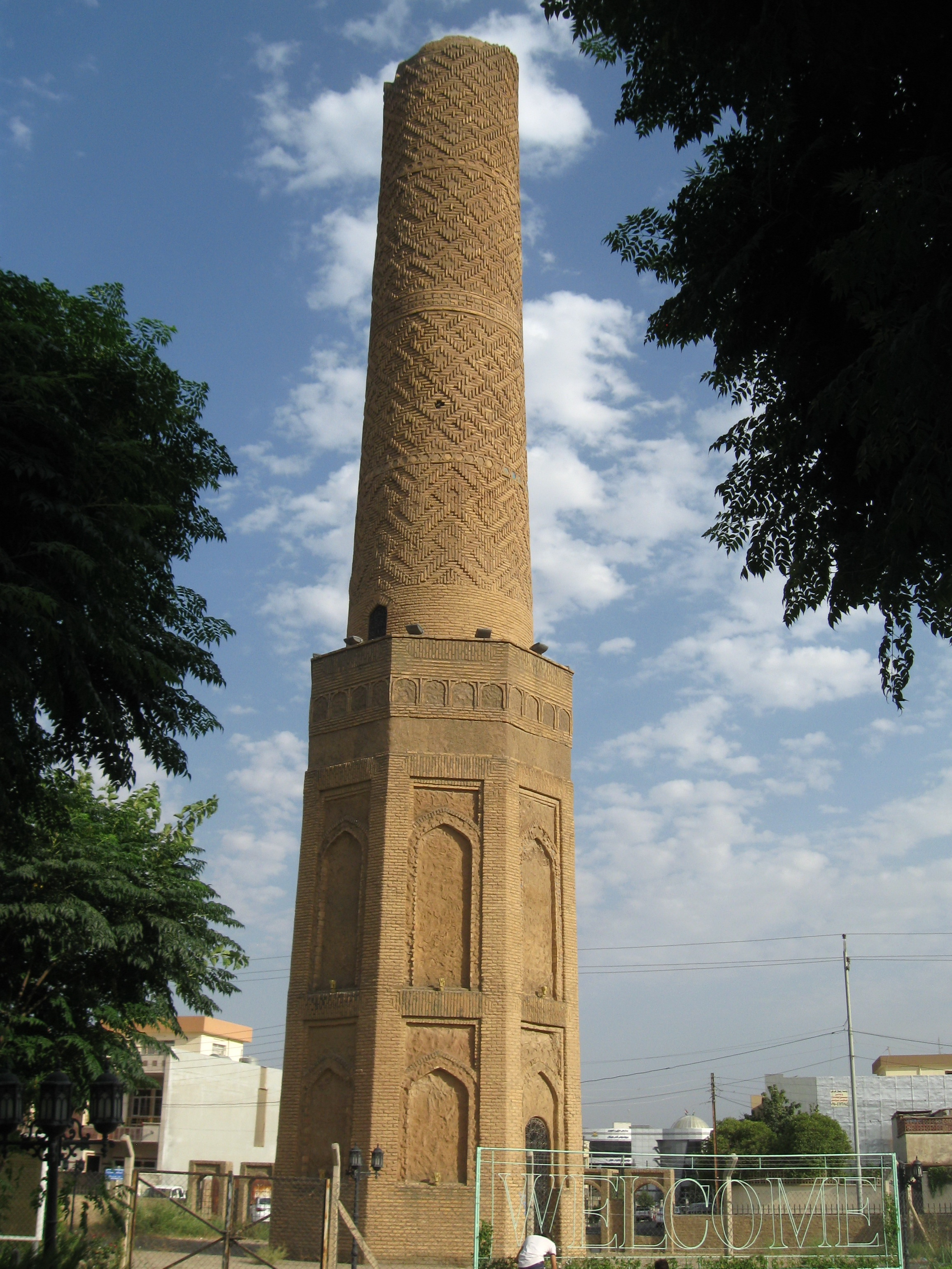 Mudhafaria Minaret in Arbil, Iraq.